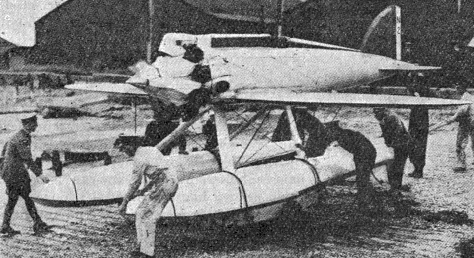 Short Crusader photo from Le Document aéronautique October,1927